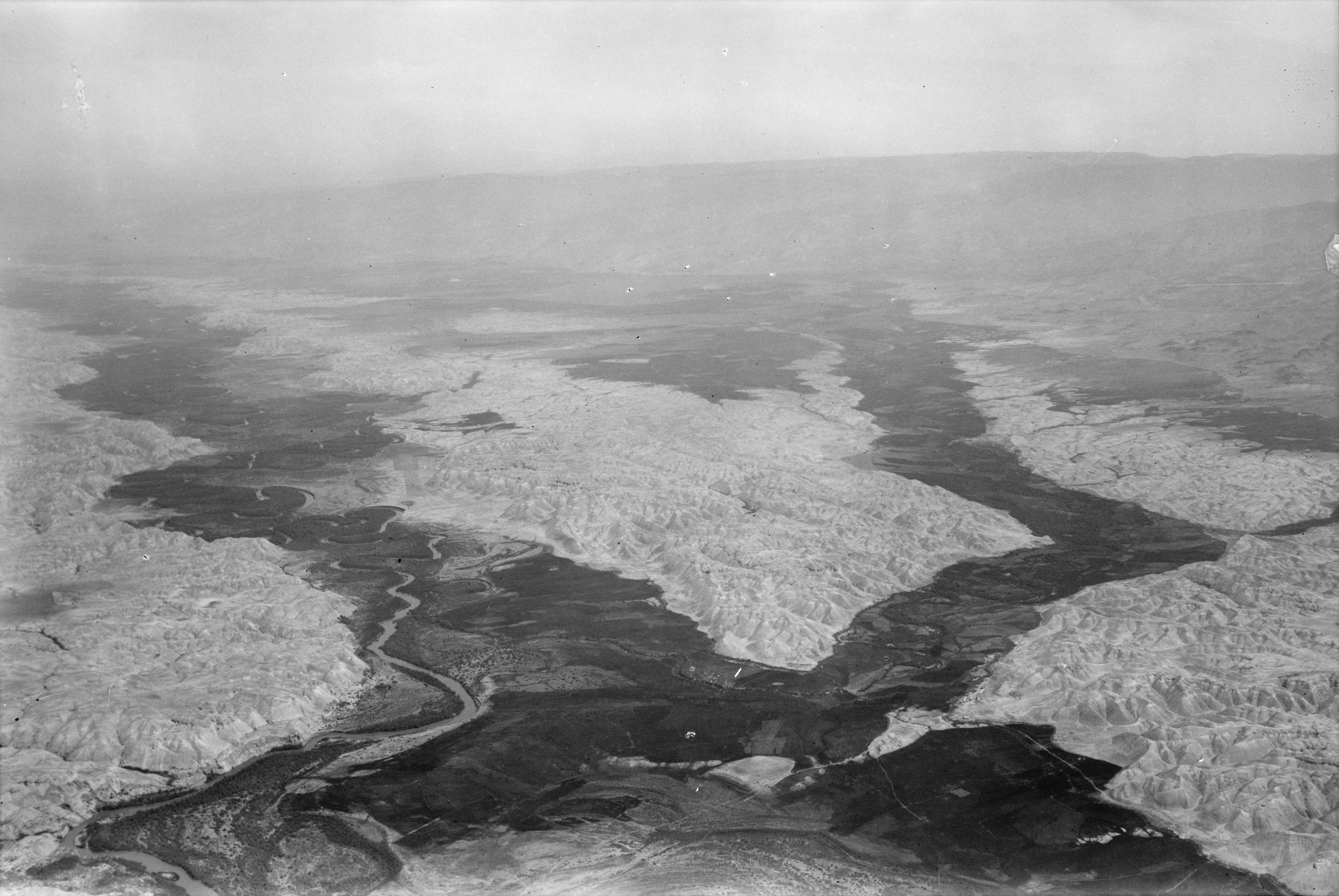 Title: Air views of Palestine. Flying south over the Jordan Rift. The Damieh district. Jordan united with the Jabbok Abstract/medium: G. Eric and Edith Matson Photograph Collection Physical description: 1 negative